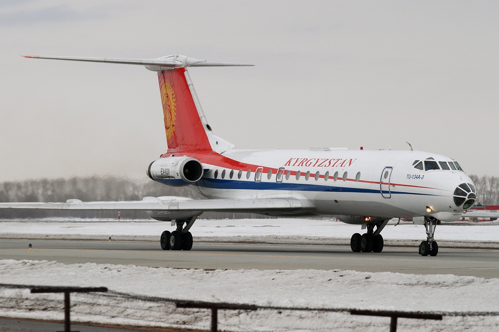 Taxiing after landing on new (second) runway. From Bishkek.